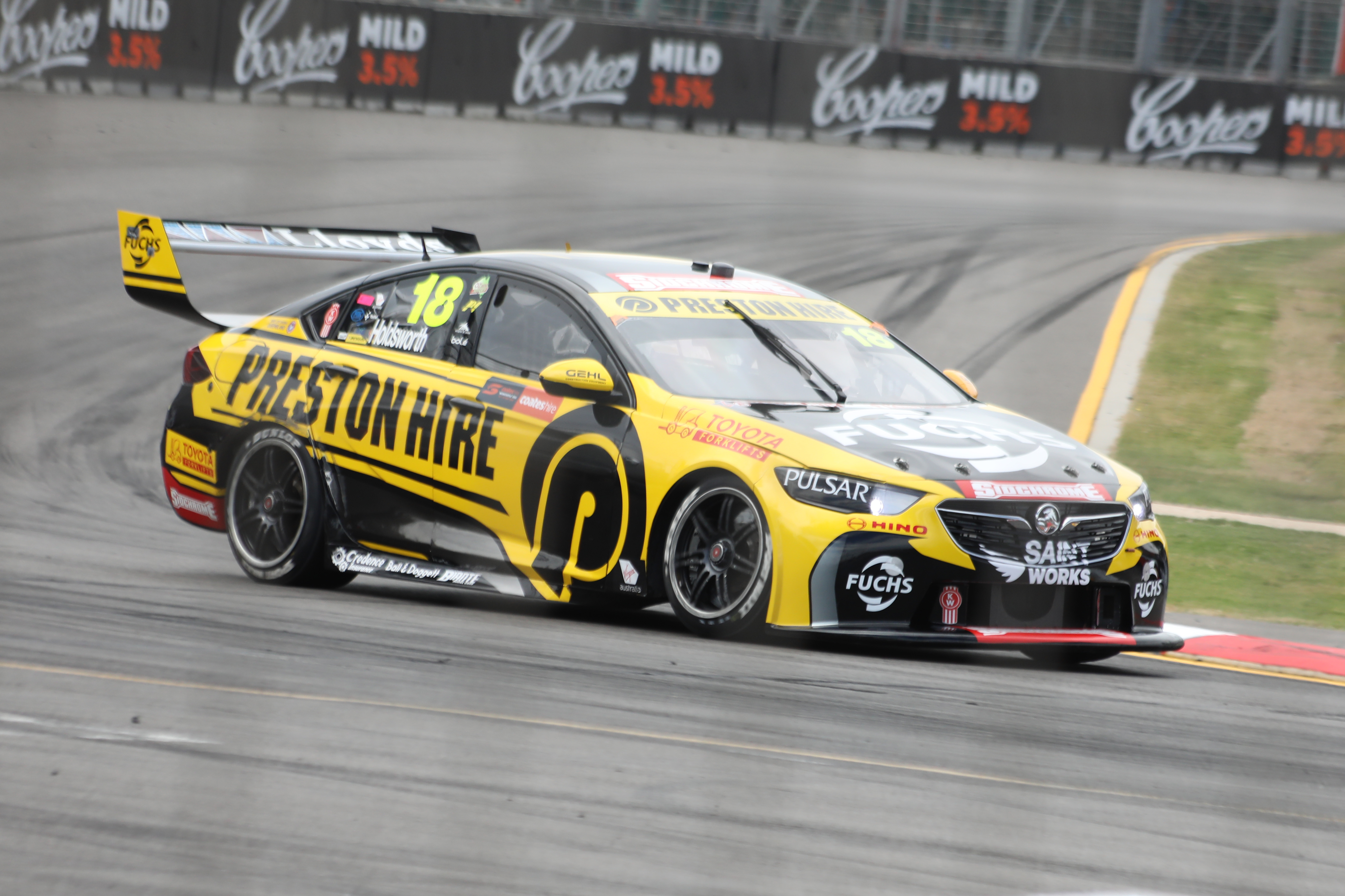 Lee Holdsworth during Race 31 qualifying at the 2018 Coates Hire Newcastle 500.